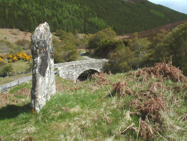 Standing stone, Sletdale, Glen Loth